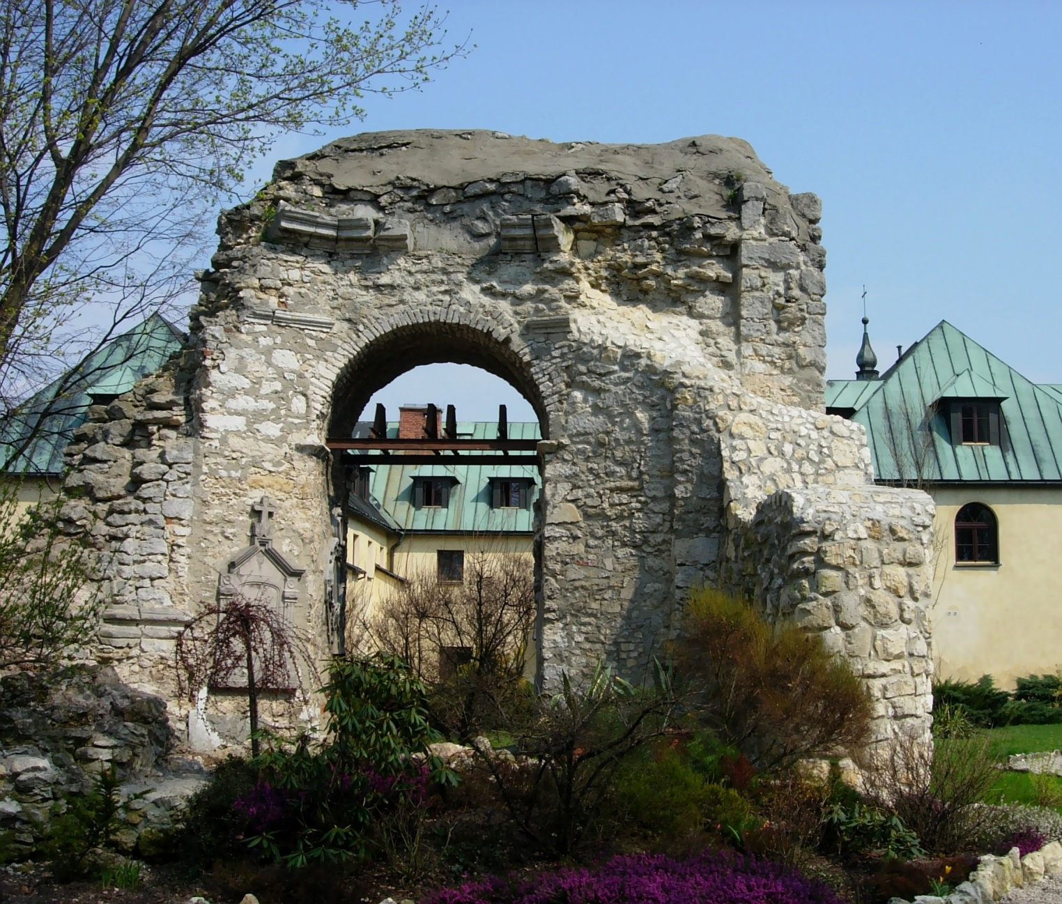 The remains of the church destroyed during World War II in the monastery in Stopnica, Poland